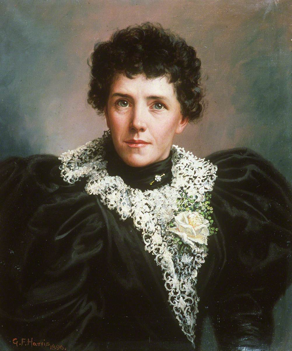 A painting from the Framed Works of Art collection at the National Library of wales.